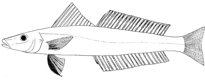 Hand drawn diagram of the Club-foot whiting, Sillago chondropus. Based on McKay (1985)